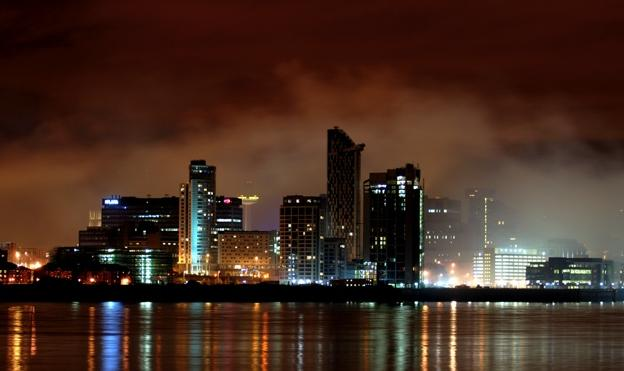 Photograph of Liverpool city centre from the River Mersey, taken by Robert Smith and released into the public domain.